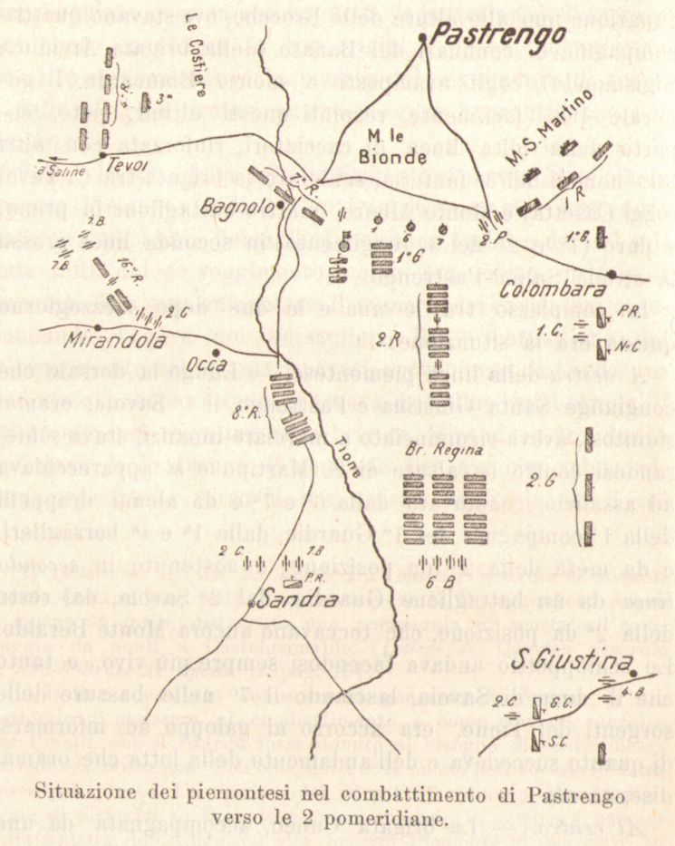 Map of Battle of Pastrengo 30 april 1848.